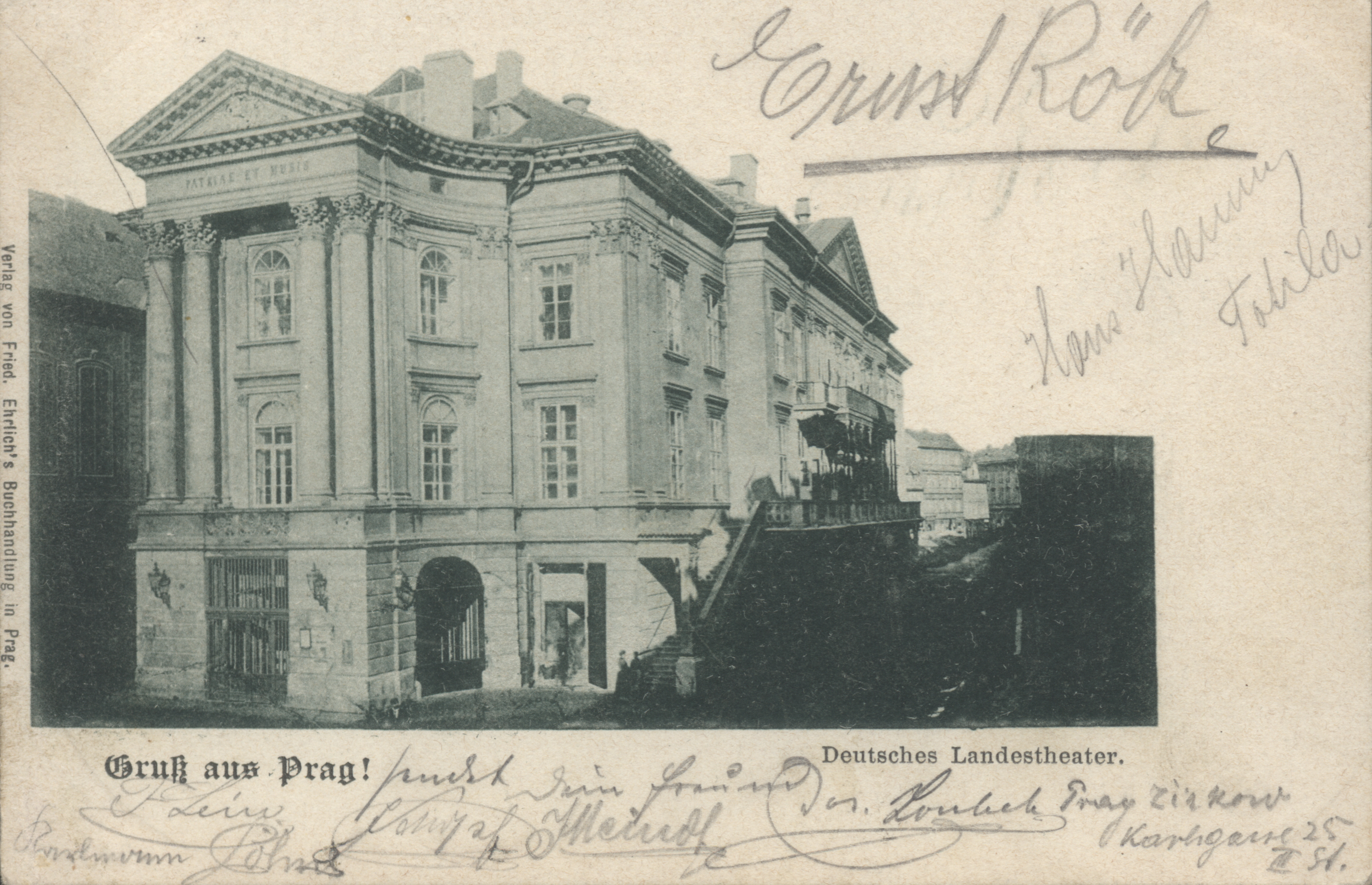 Prague, Theatre of the Estates, postcard sent in 1898